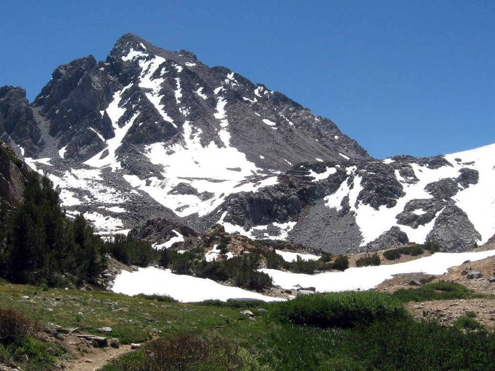 Mount Agassiz's northwest face (despite the incorrect filename) seen from Bishop Pass Trail near Bishop Lake, summer 2010.